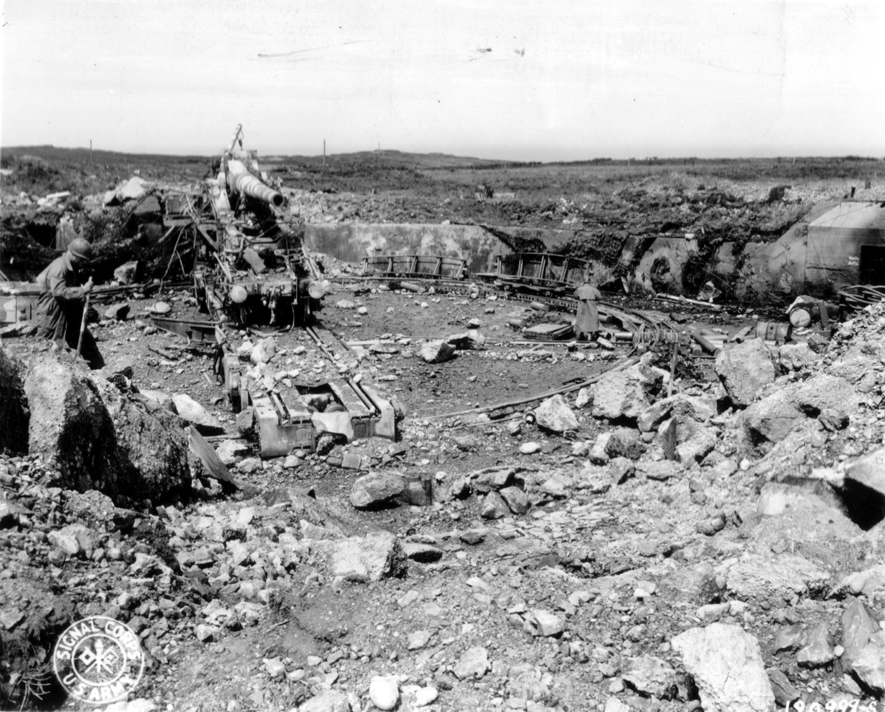 In Auderville: German 20.3cm rail cannon after an intense bombing. The battery is rail-mounted and consists of two 203mm cannons with a maximum range of 38km. The unit can turn 360°, and is capable of shooting in any direction. The battery was bombed on june 28, 1944 by P-47s and B-26s.